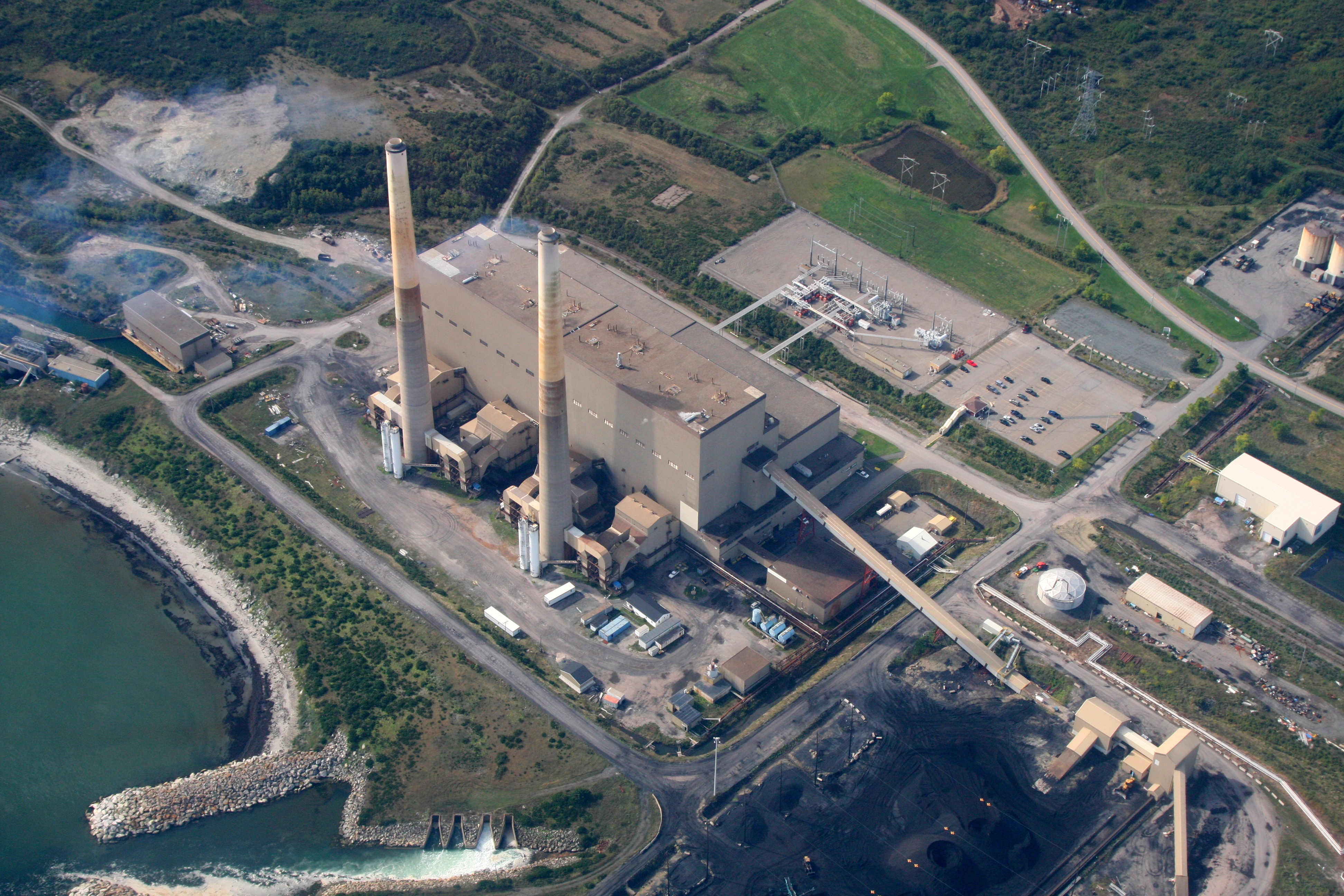 The Lingan Generating Station is a 620 MW Canadian electrical generating station located in the community of Lingan in Nova Scotia's Cape Breton Regional Municipality. A thermal generating station, Lingan was opened by then-provincial Crown corporation Nova Scotia Power Corporation on November 1, 1979 at the height of the 1970s oil crisis. It was designed to burn coal mined nearby by the Cape Breton Development Corporation (DEVCO) as a means of reducing Nova Scotia's reliance of foreign oil for electrical generation.